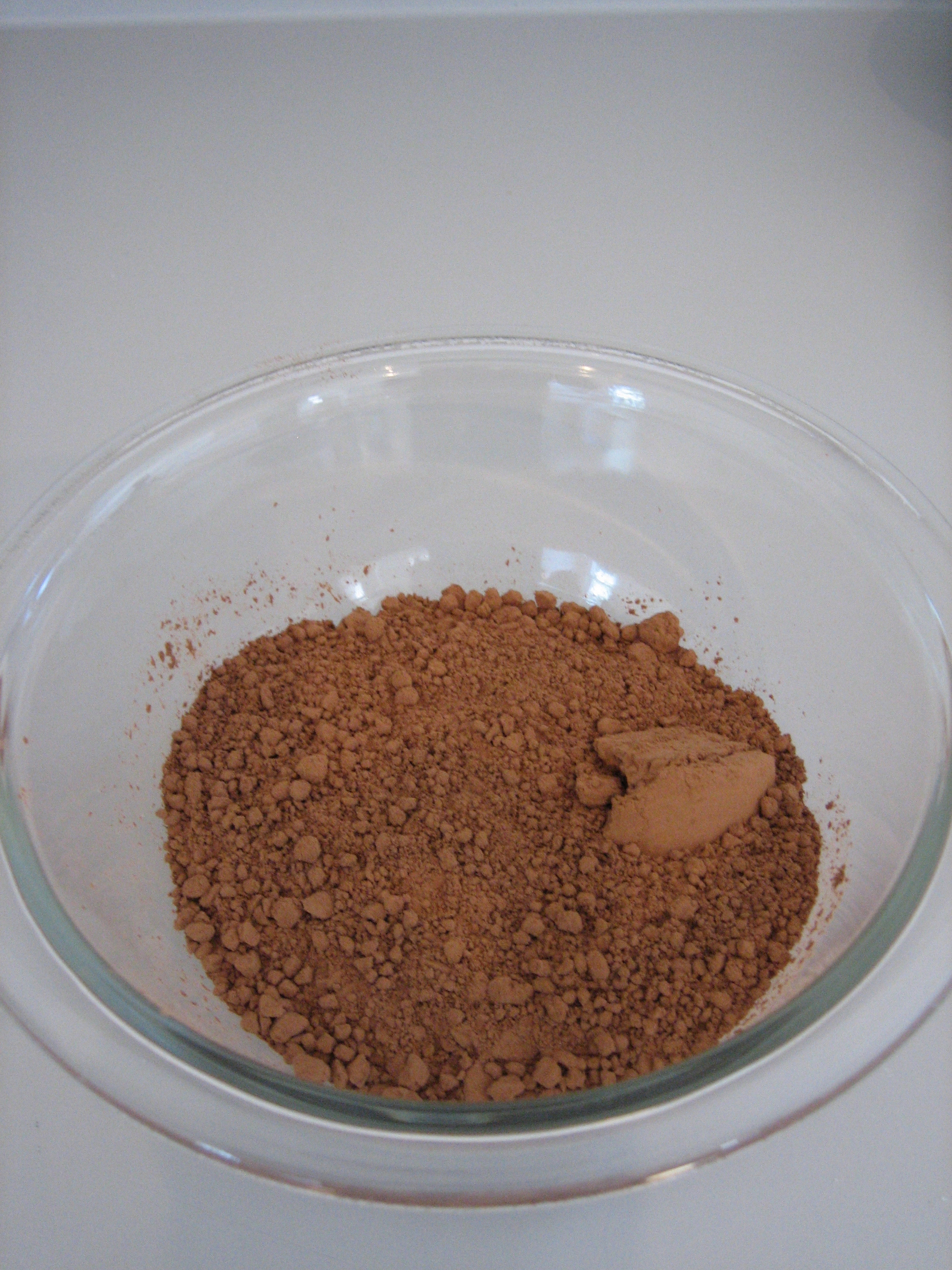 A bowl of cocoa powder.